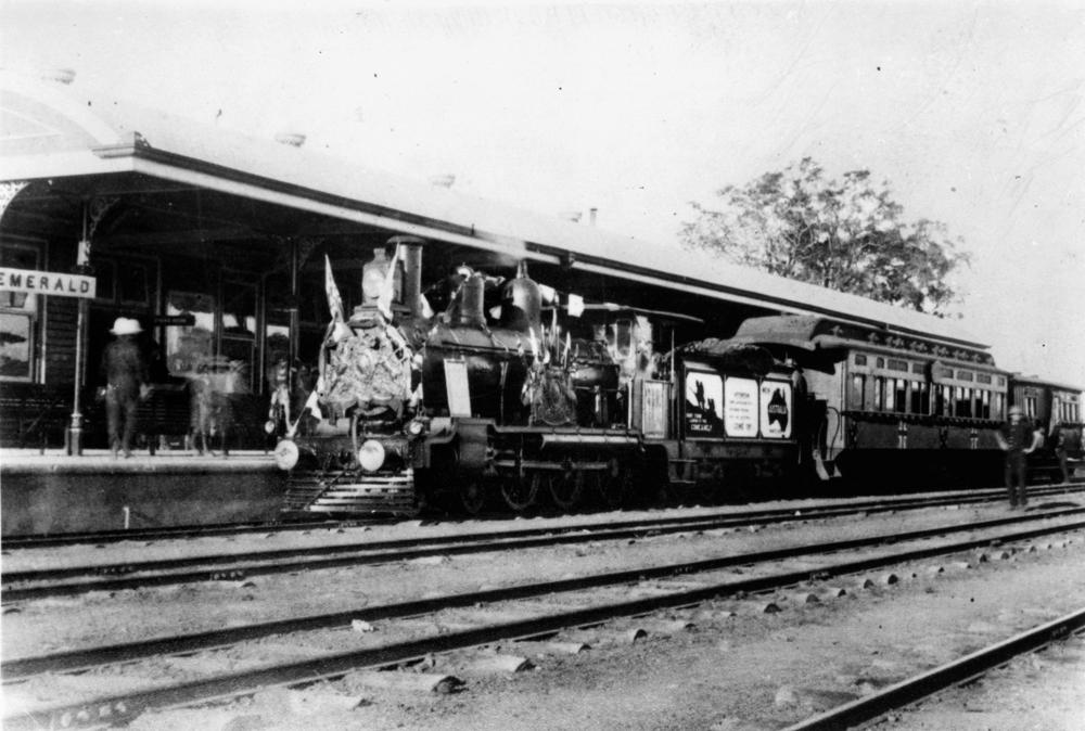 Recruiting train stopped at Emerald during World War I